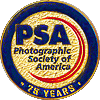 PSA Gold Medal